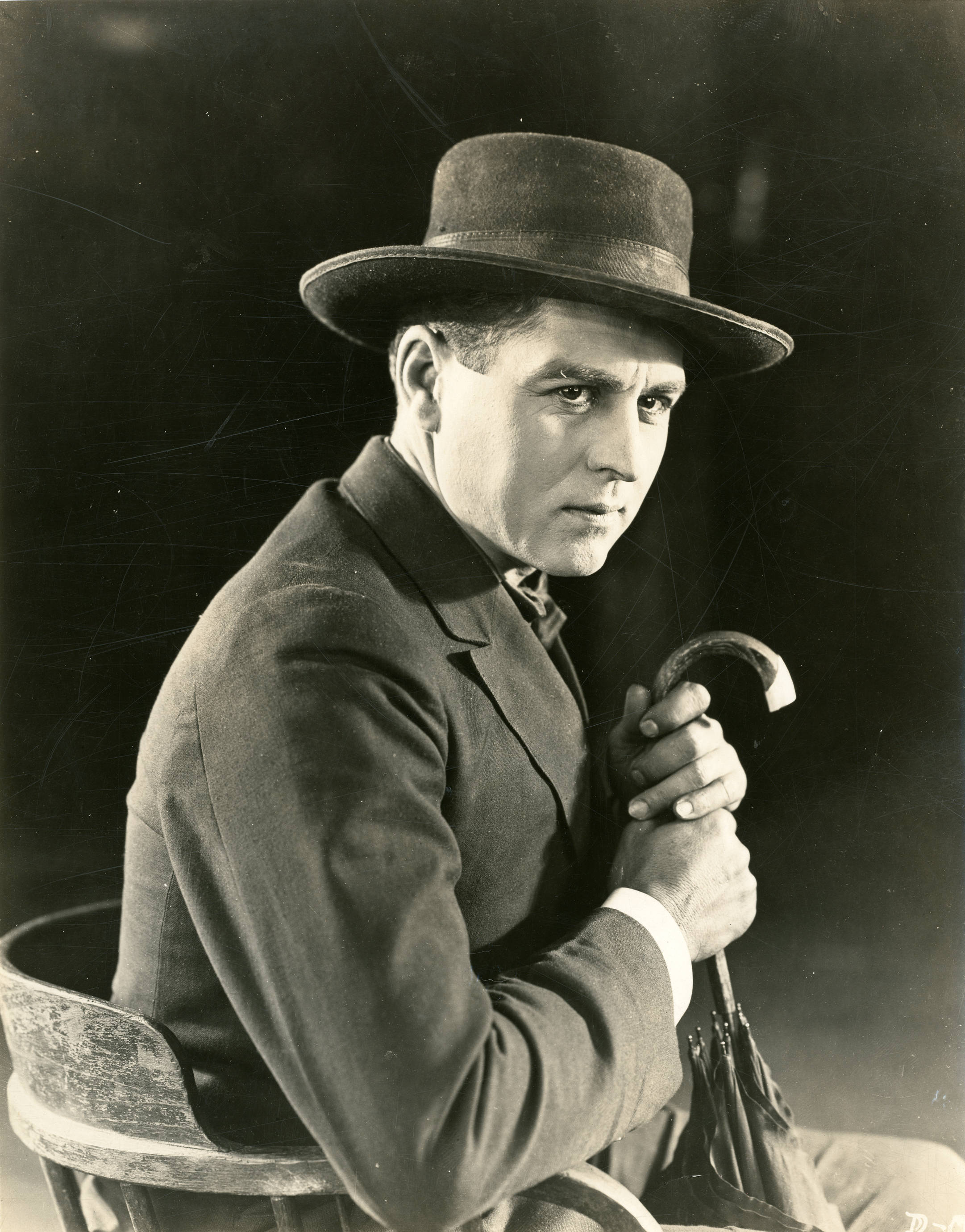 Film actor John Bowers. Subjects: actors